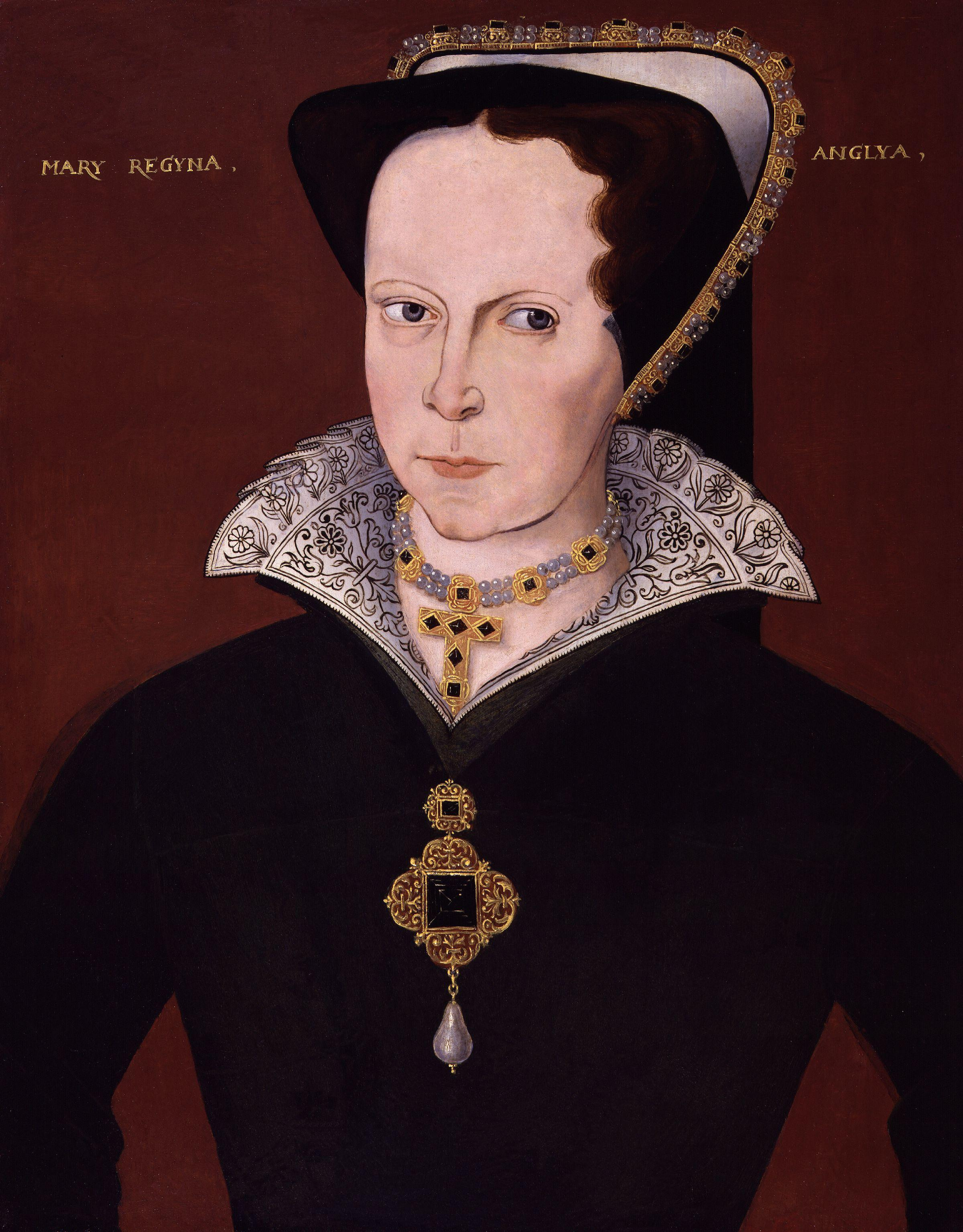 Painting of Mary I, Queen of England and Ireland. She is wearing a pendant with a large pearl, a gift from king Philip II of Spain on the occasion of their marriage in 1554. The pearl is named 'La Peregrina' (the Wanderer) and was last owned by Elizabeth Taylor.